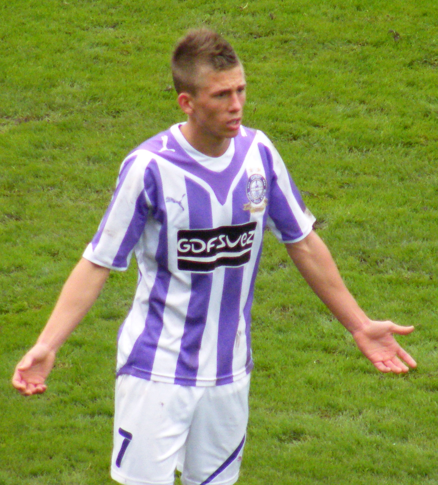 Krisztián Simon Hungarian association football player.